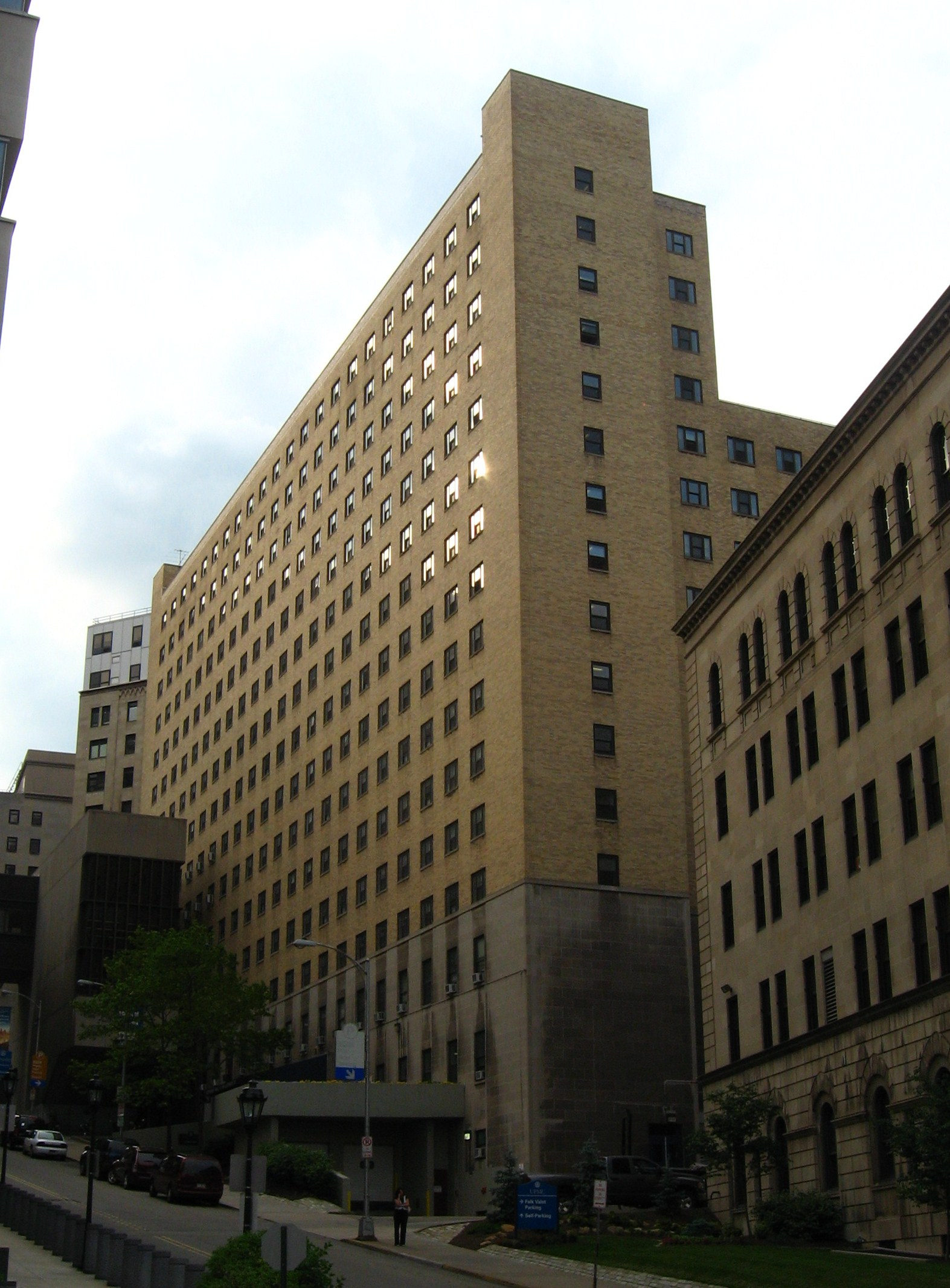 Lothrop Hall at University of Pittsburgh 40°26′30.8″N 79°57′37.3″W / 40.441889°N 79.960361°W